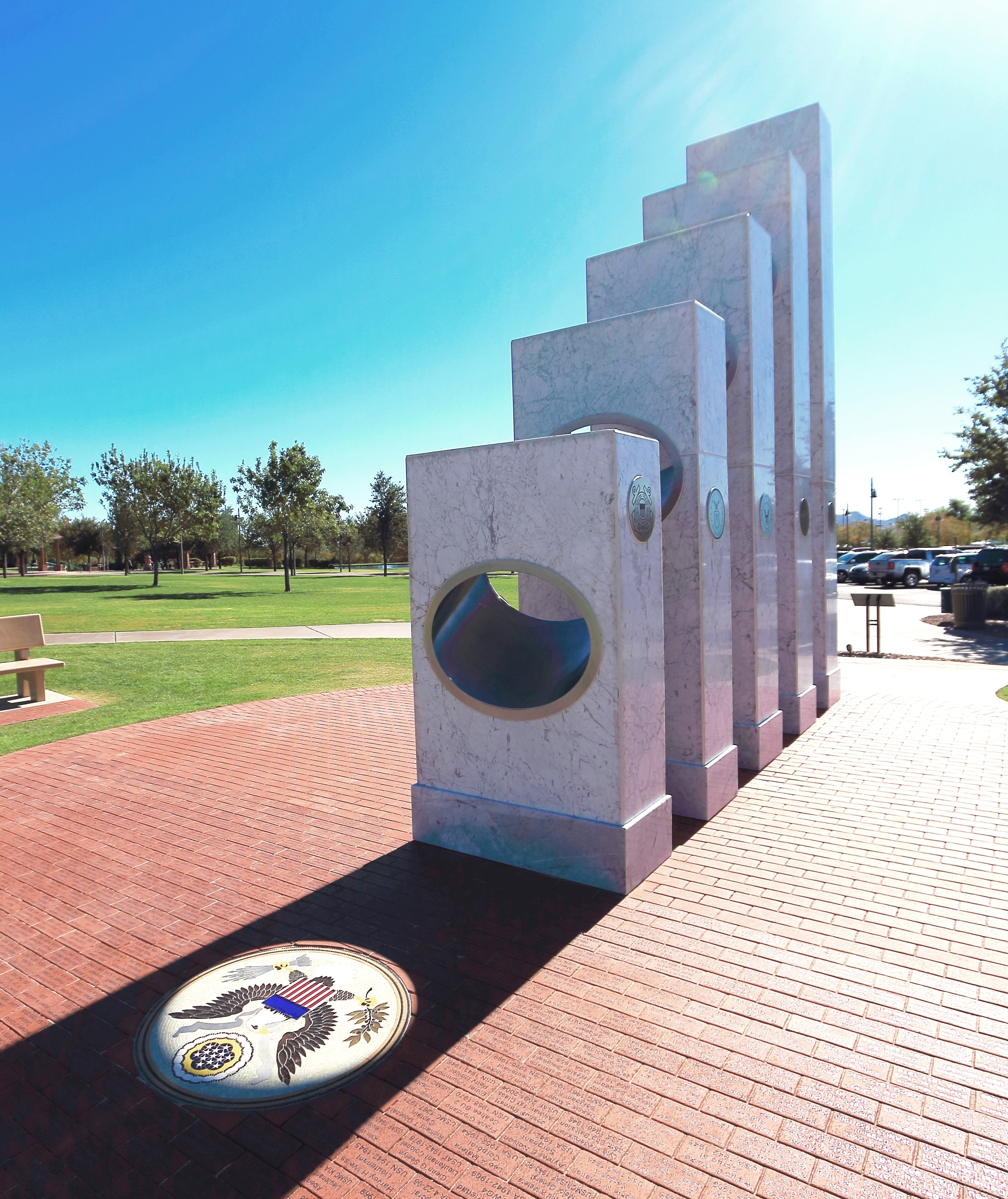 On 11/11 of every year at 11:11:11 the sunlight shines through perfectly 5 statues saluting all the armed services.